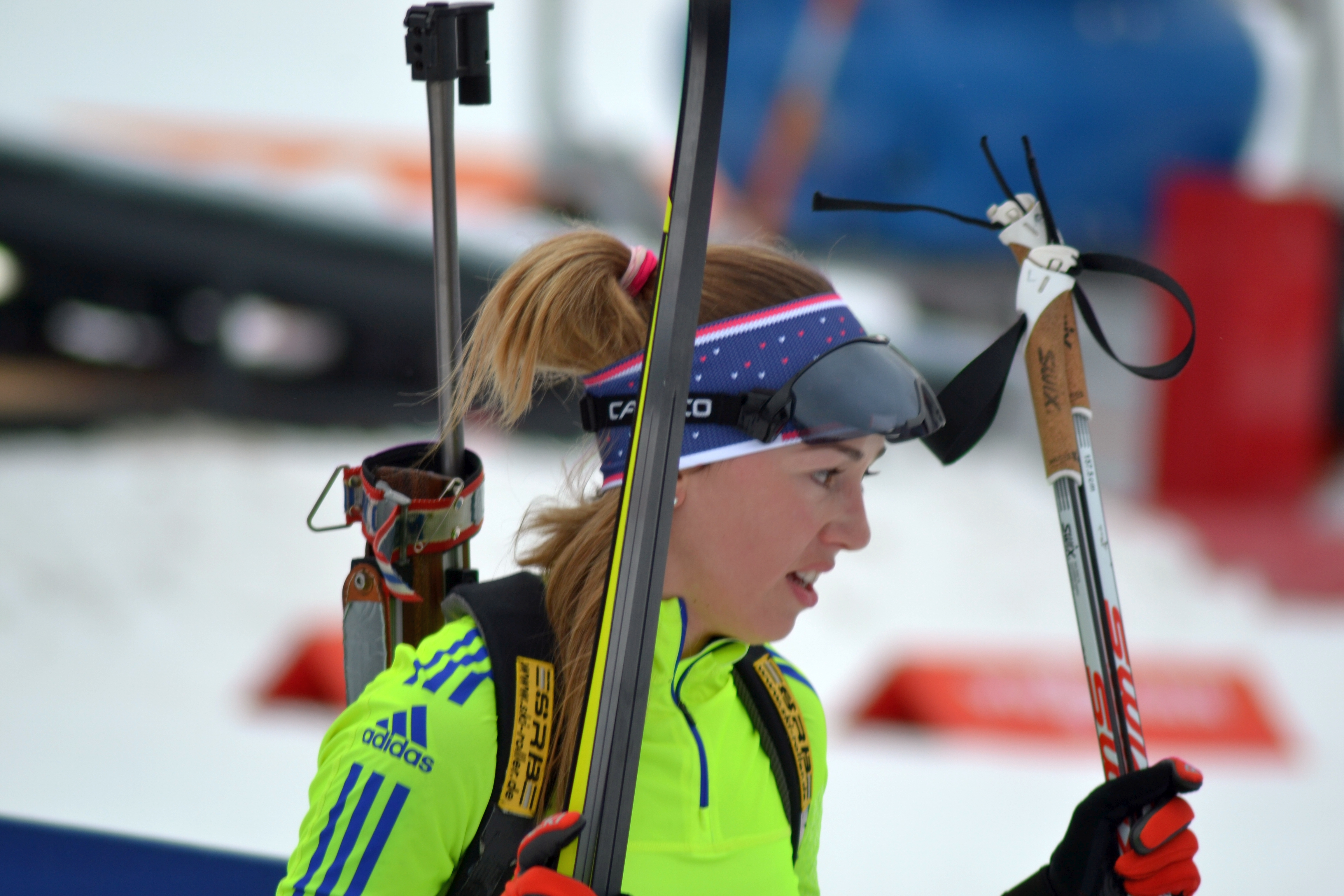 Open European Championships Biathlon 2017, Individual Women's race, held on January 25th.